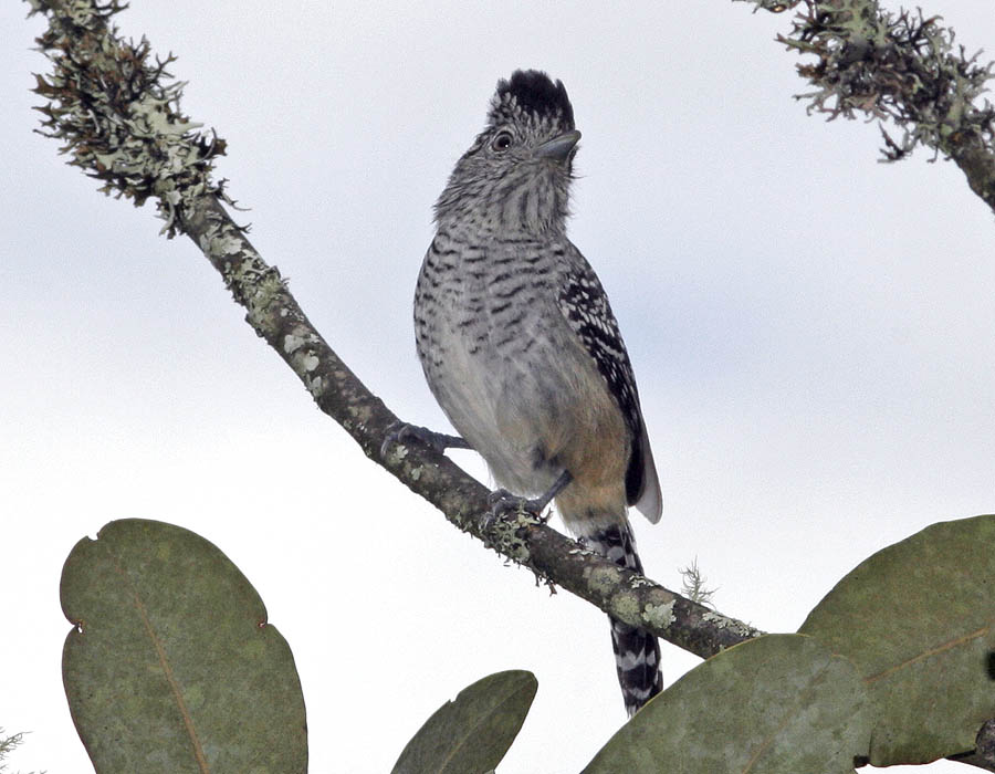 Photographed at Bosque de Hanne/Utuana in SW Ecuador, Feb 4 2007.